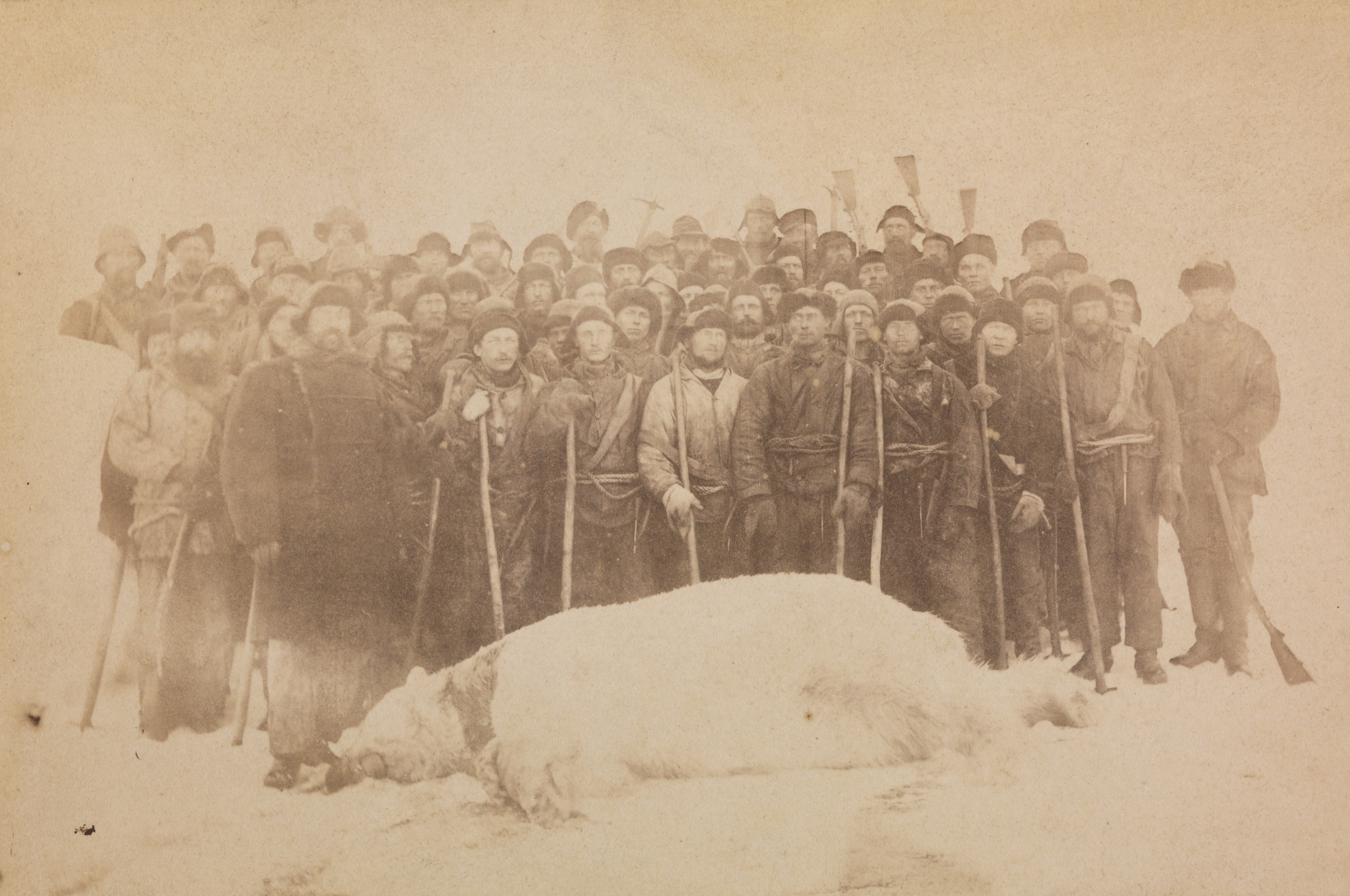 Captain Axel Krefting together with seal hunters and ship's crew from the «Viking», next to a polar bear that has been shot. This is one of the pictures from a trip with seal hunters to Vestisen in March to July, 1882.